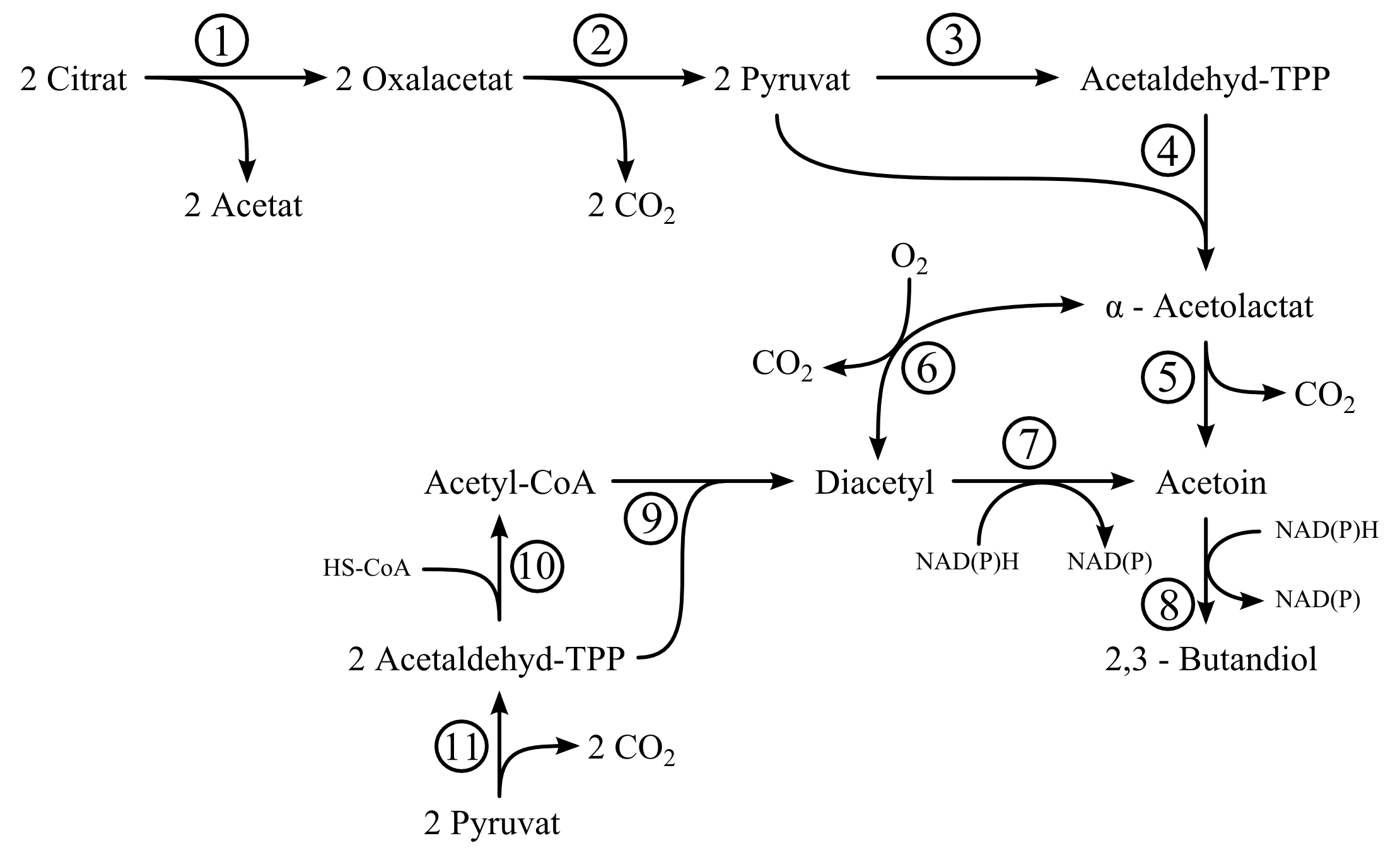 Biochemical pathway of the formation of 2,3-Butanediol from citric acid and pyruvate